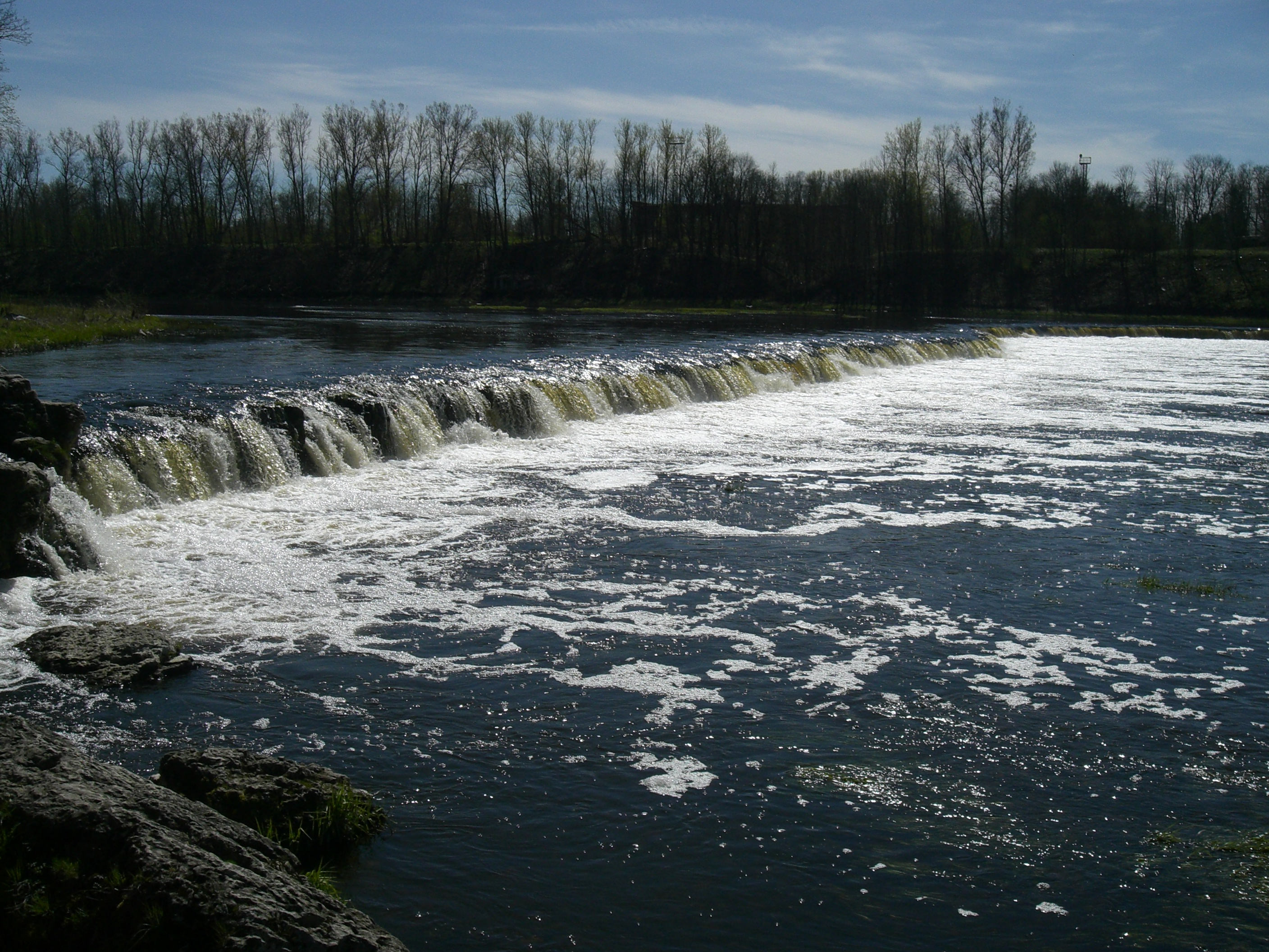 Waterfalls on the river Venta in Kuldīga, Latvia